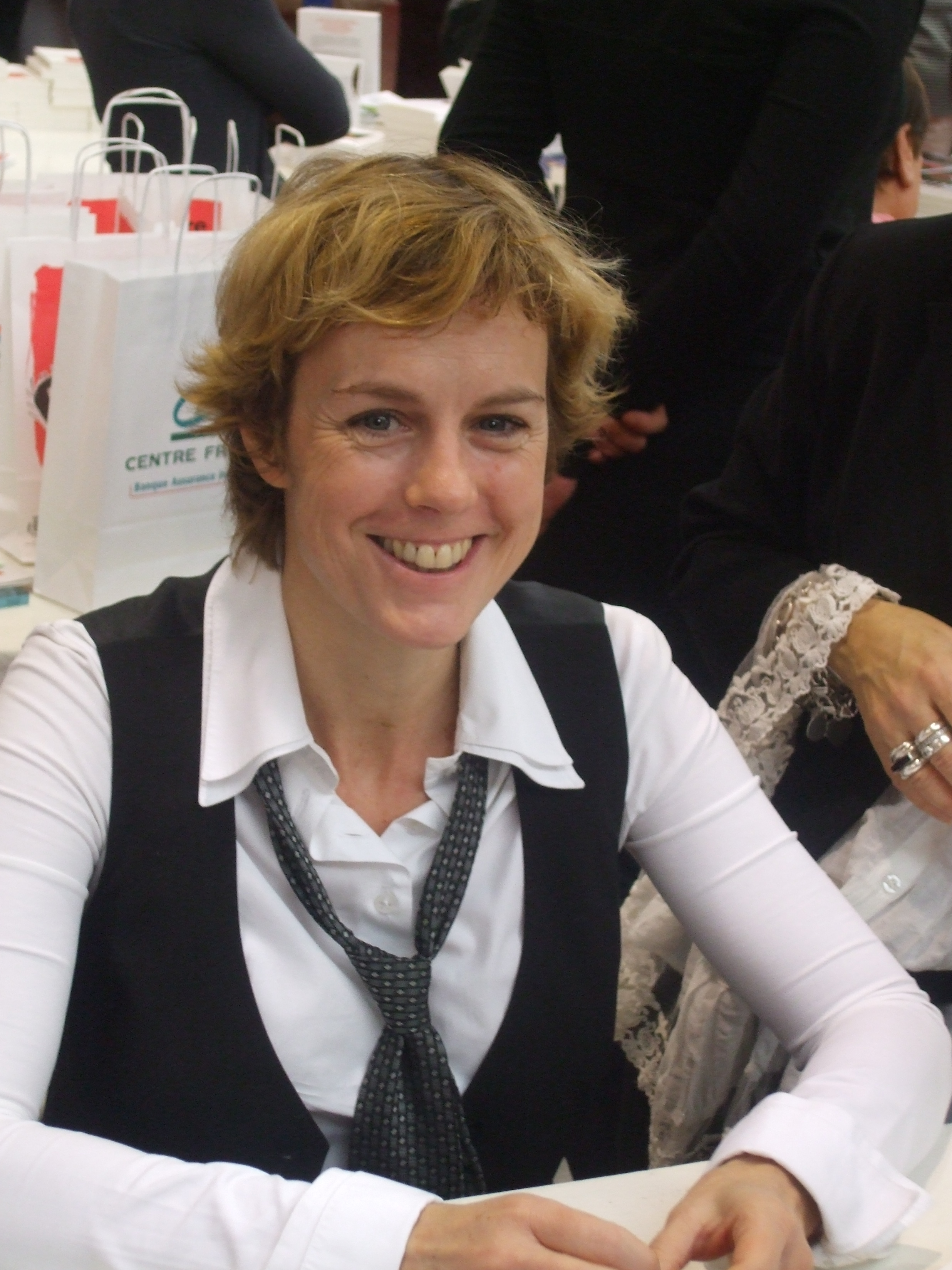 Anne Richard, swiss actress and writer, Brive la Gaillarde book fair, France, 2010 11 06